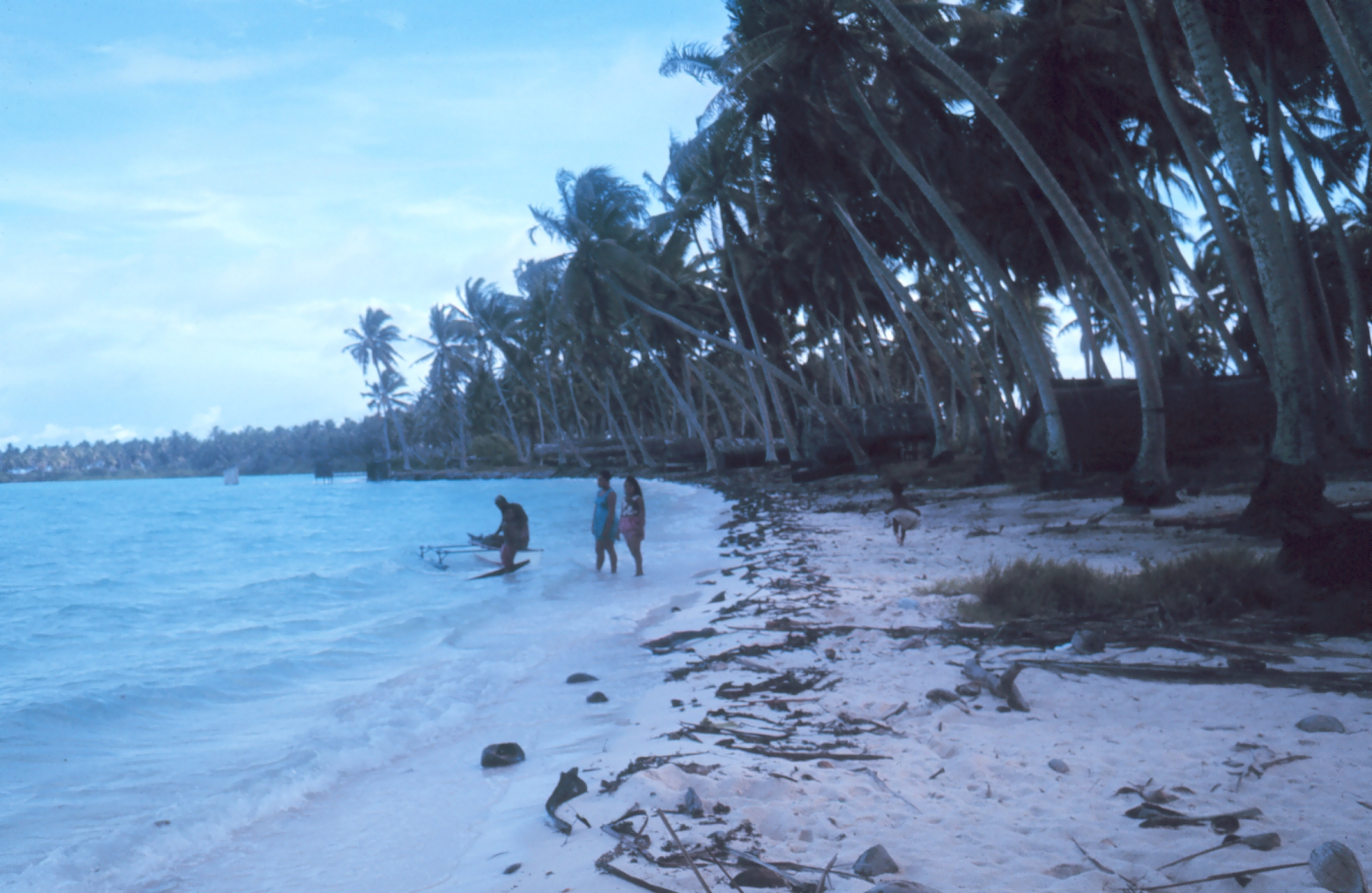 Lagoon shoreline with native outrigger at Fanning Island (Tabuaeran), Line Islands, Pacific Ocean